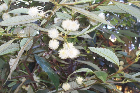 Callicoma serratifolia at Elvina Bay, Australia